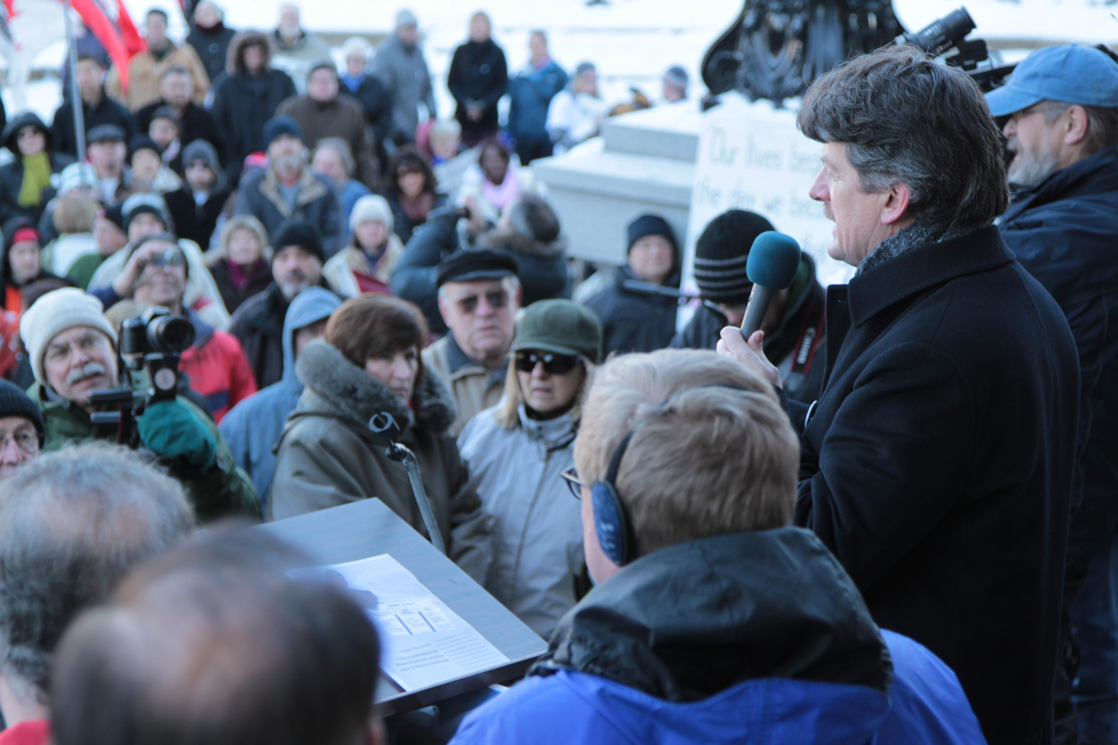 Hugh MacDonald speaking in front of a large crowd at the Alberta Legislature Grounds